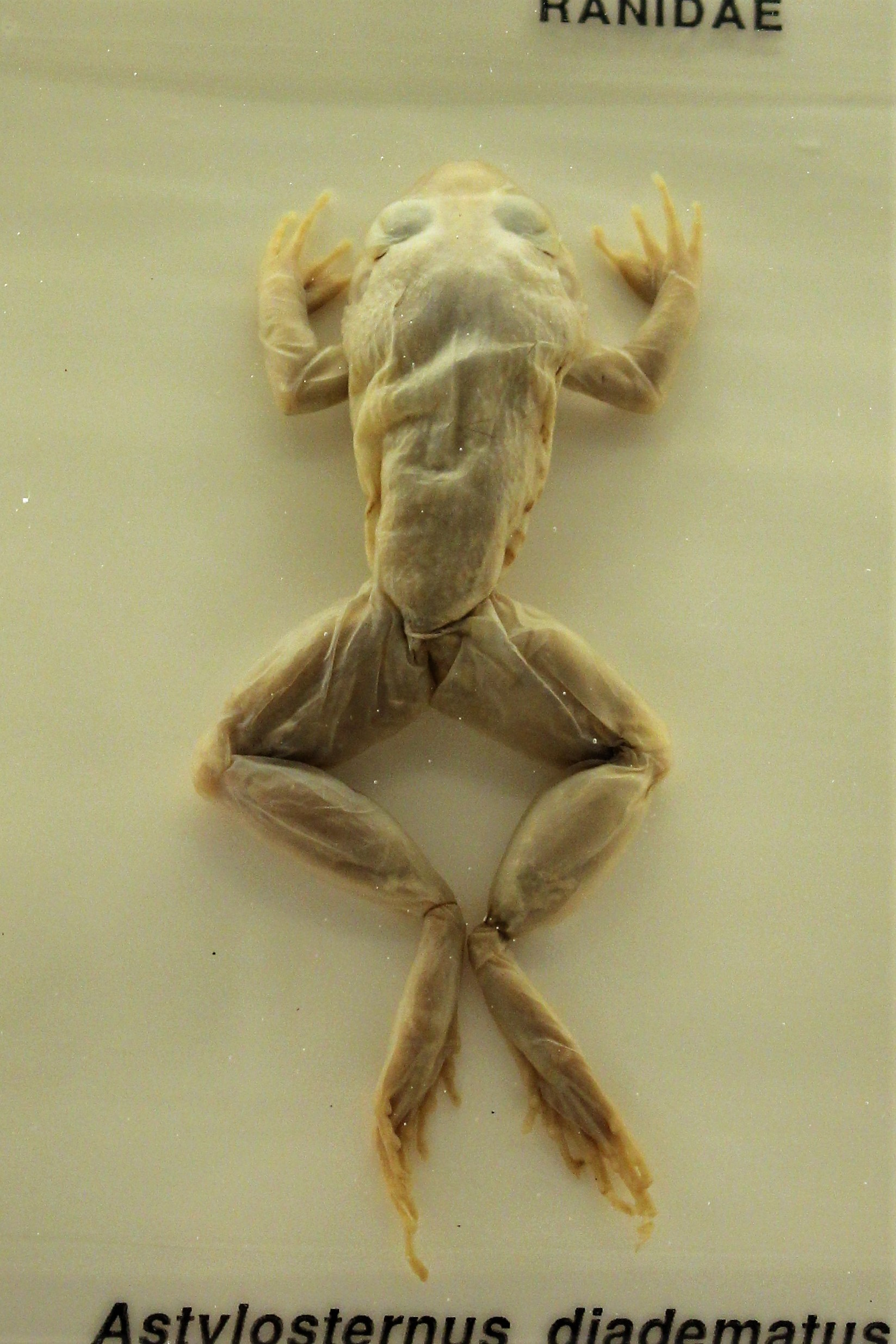 Astylosternus diadematus at the Cambridge University Museum of Zoology, England.